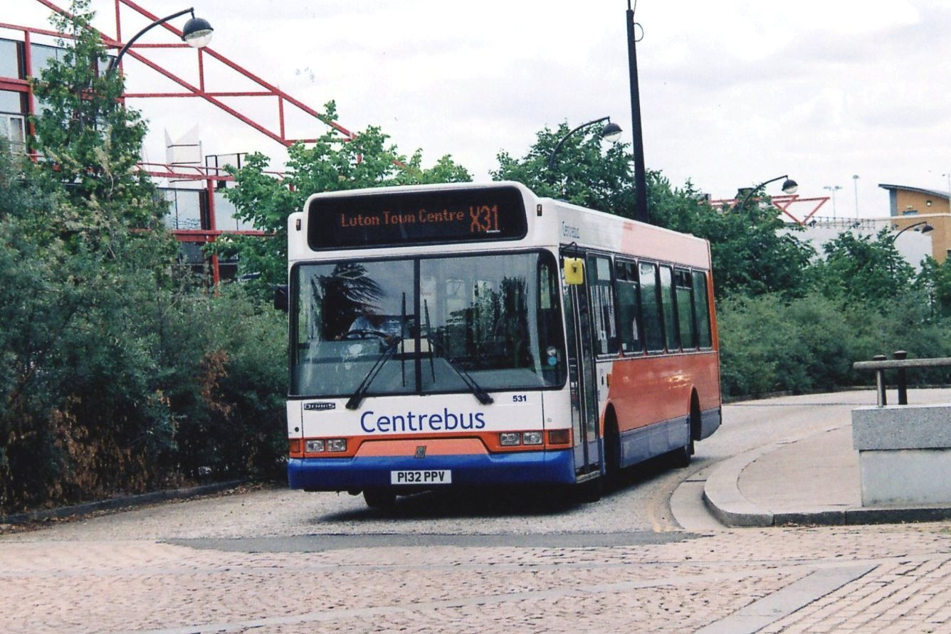 A Centrebus bus on express route X31 to Luton in Central Milton Keynes in July 2010. The bus is a Dennis Dart SLF with East Lancs Spryte body, registration mark P132 PPV, fleet number 531.